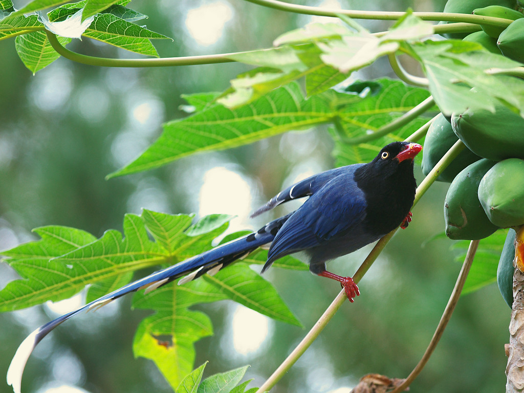 Endemic bird of Taiwan. It is also the national bird of R.O.C.